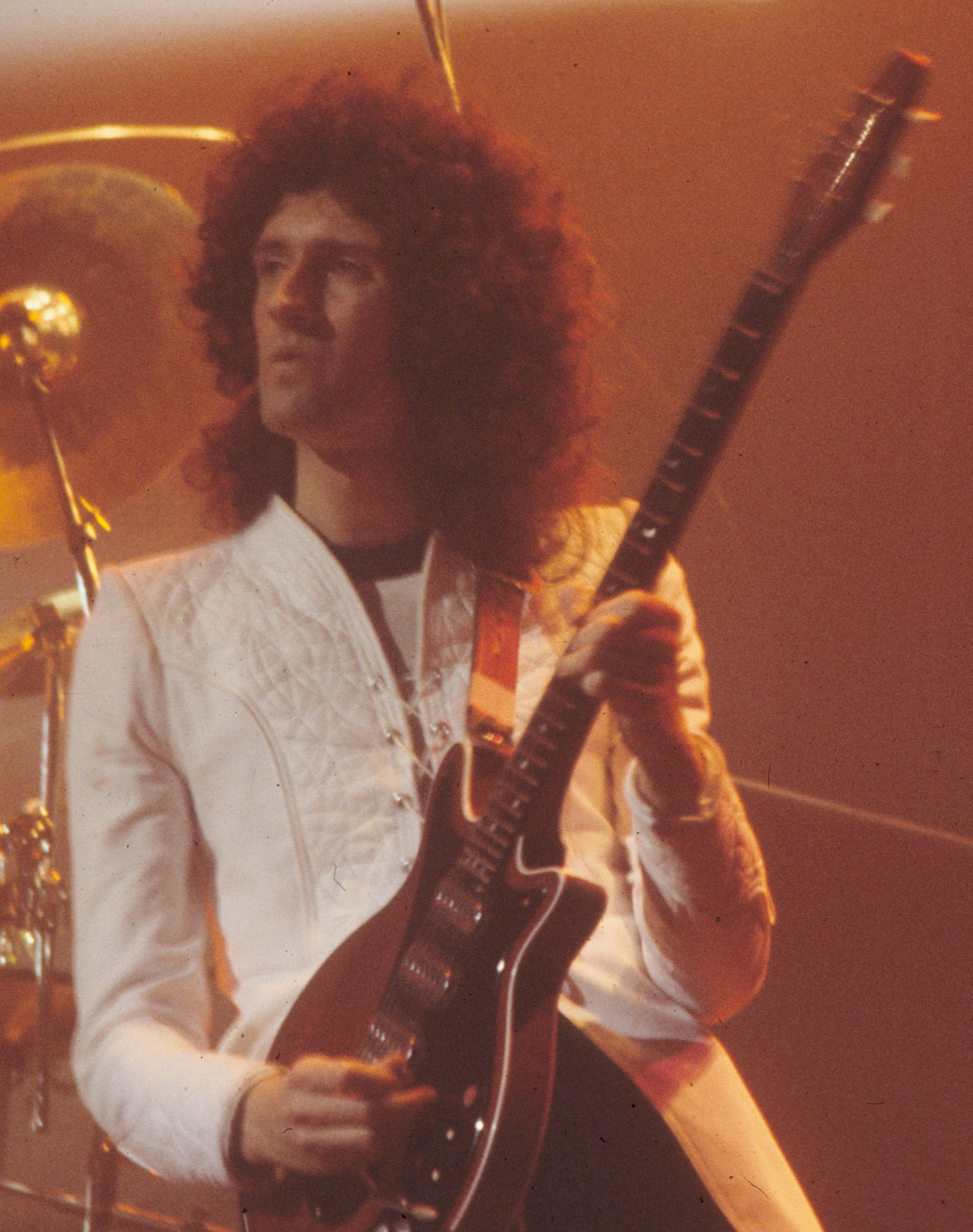 Brian May performing at New Haven Coliseum in New Haven, CT